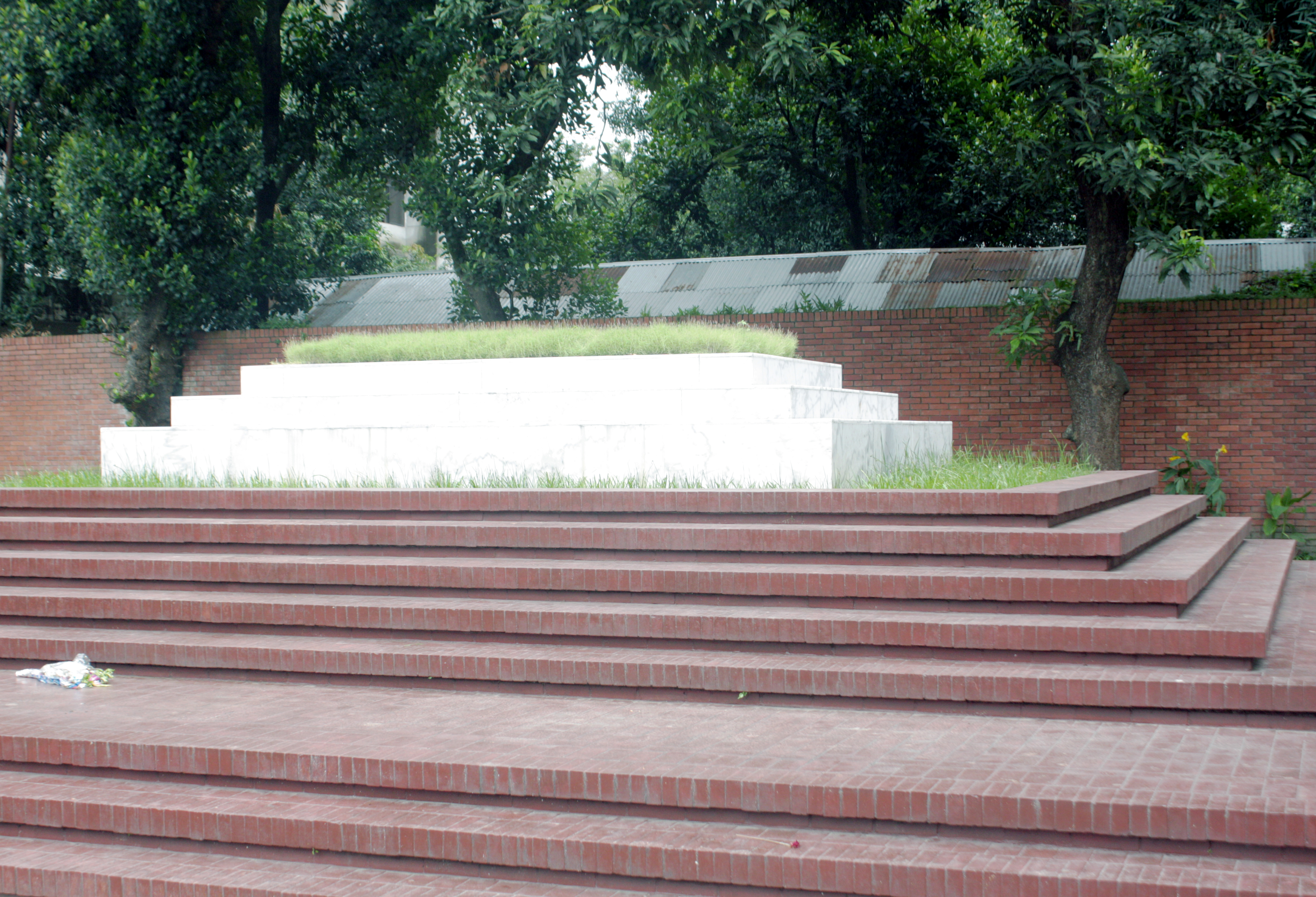 Mausoleum of Kazi Nazrul Islam. Nazrul was a Bengali poet, writer, musician, and revolutionary from the Indian subcontinent. He is the national poet of Bangladesh.